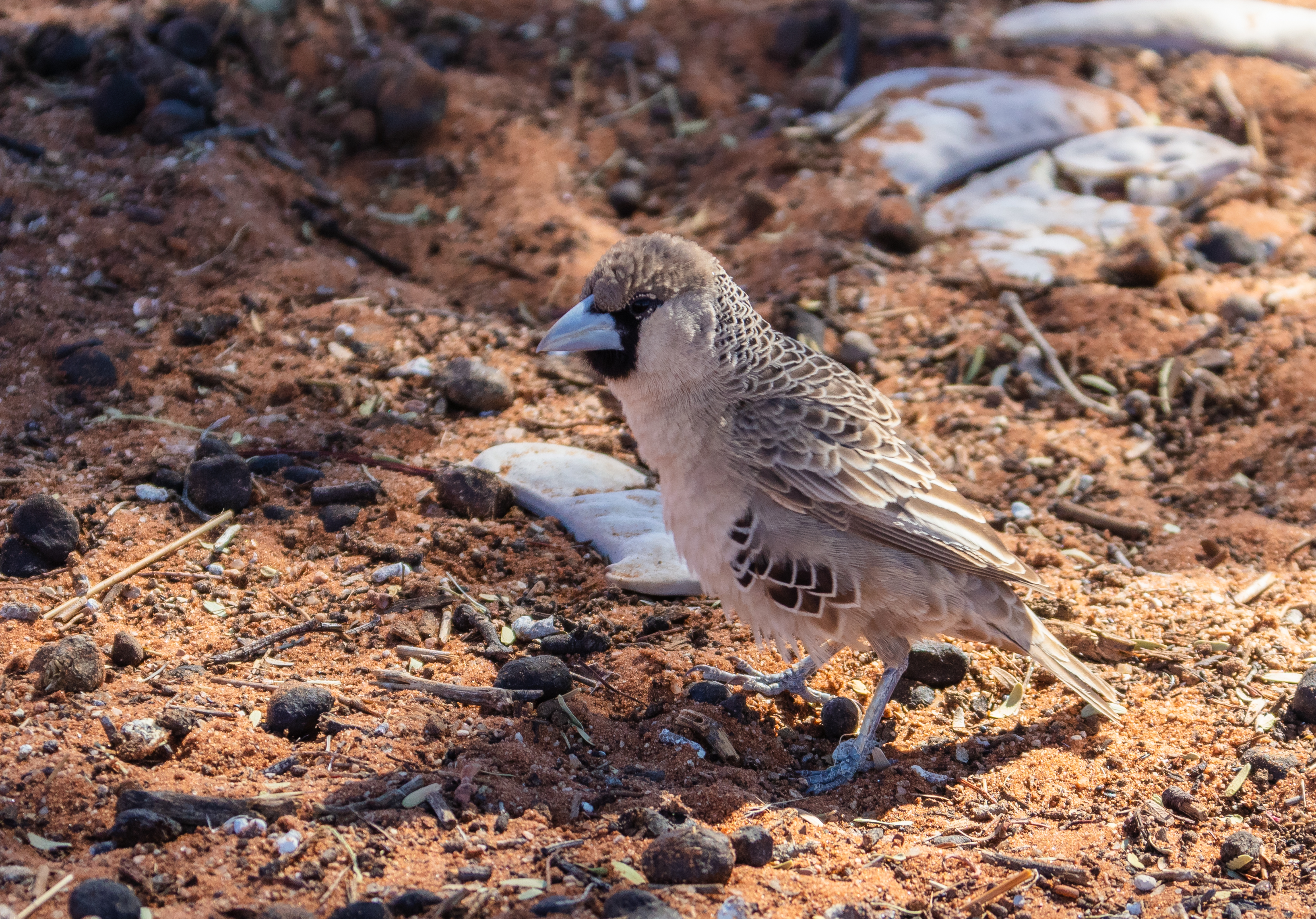 Sociable weaver (Philetairus socius), Sossusvlei, Namibia